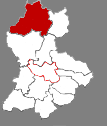 Location of Xing county in Lüliang City, China